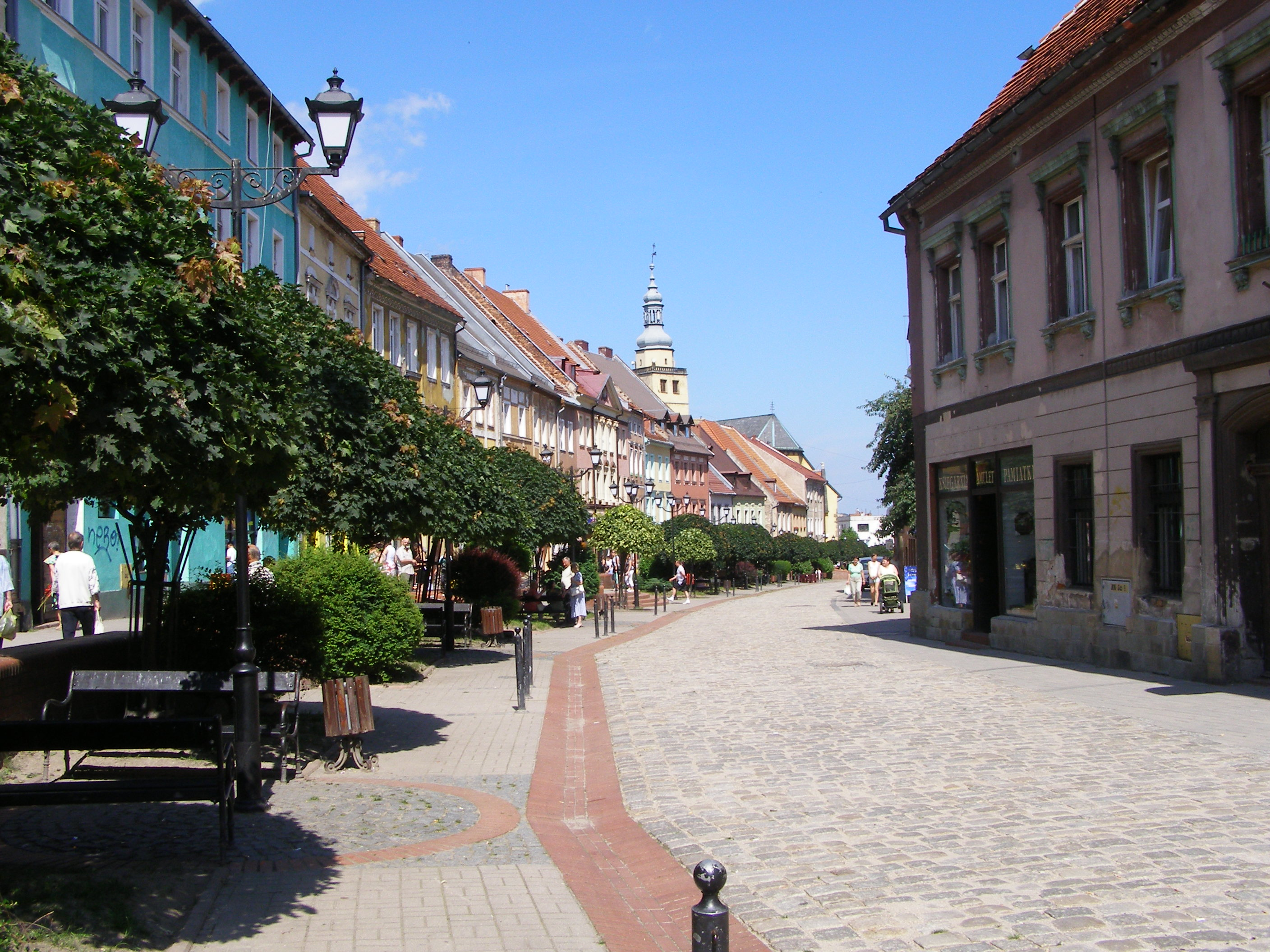 The Old Town in Kowary, Poland